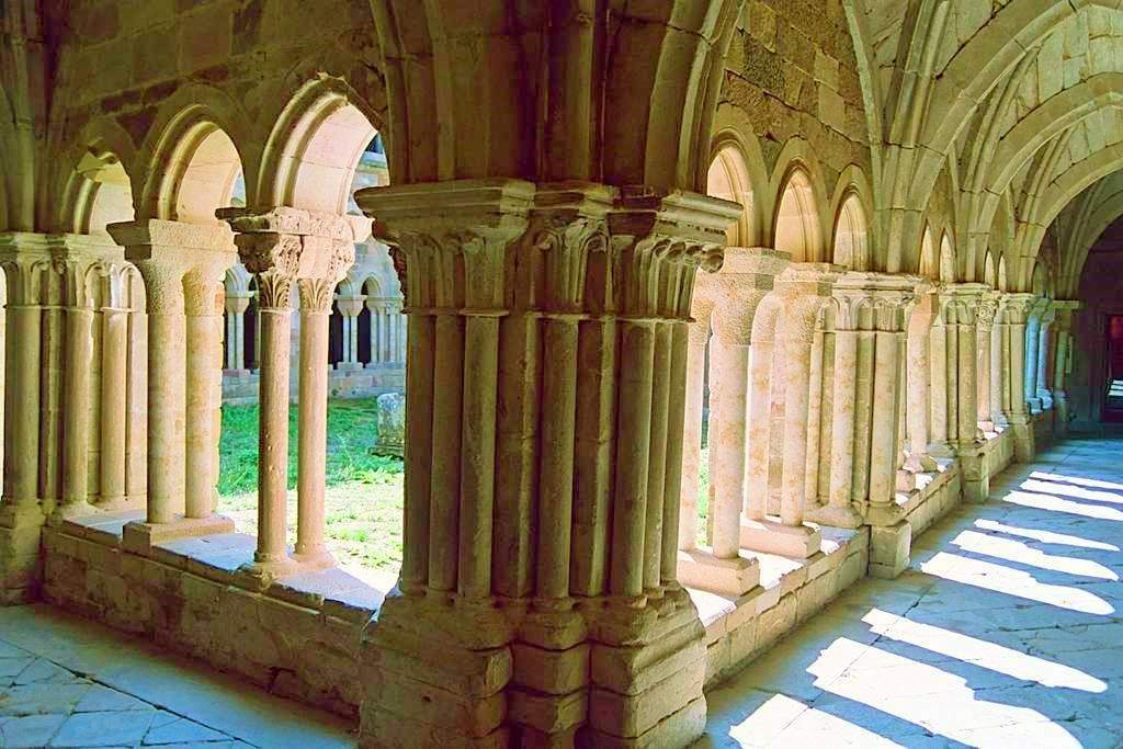 Claustro del monasterio de Santa Maria la Real de Aguilar de Campoo (Palencia)